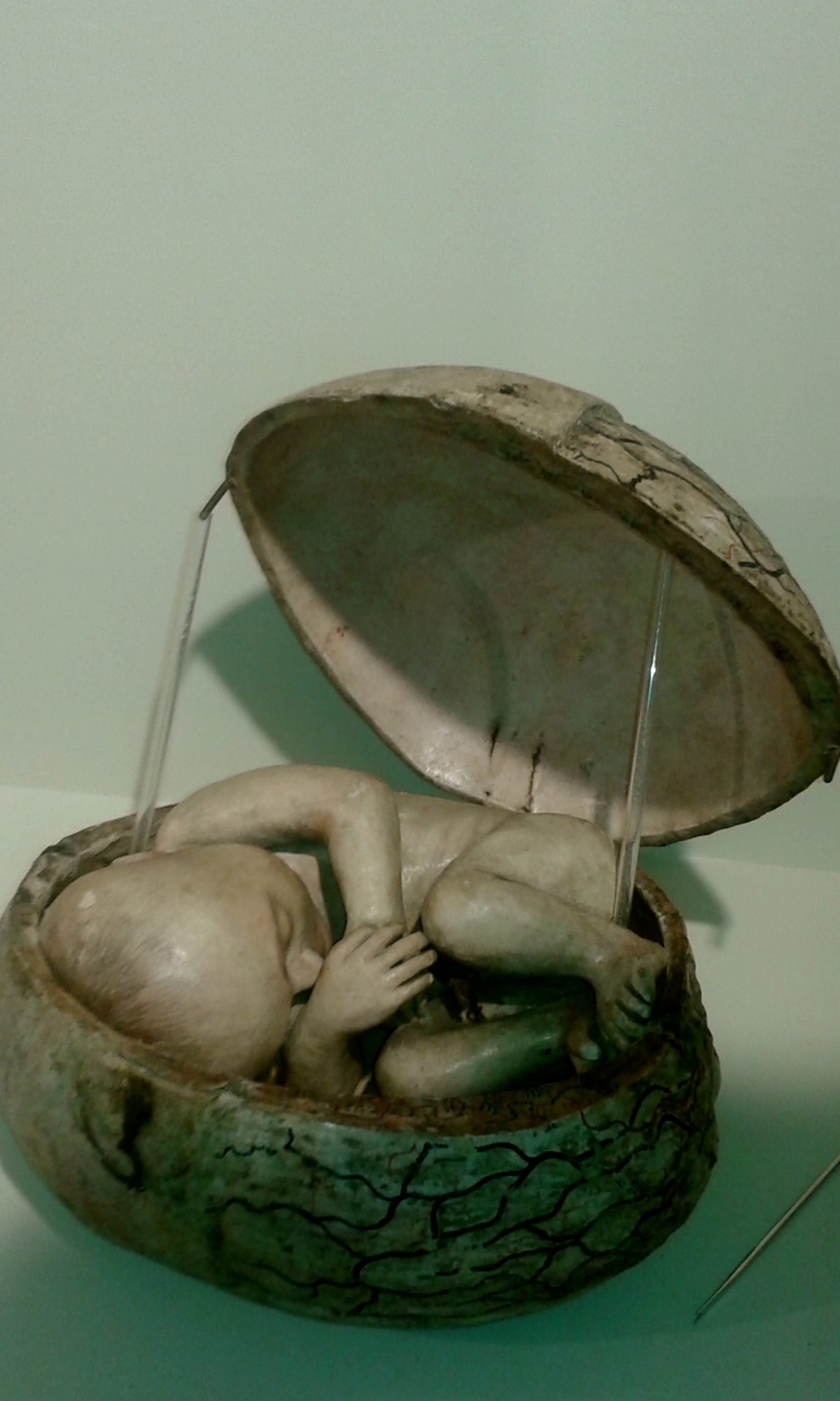 replica van een baby in de baarmoeder, museum voor Verpleegkunde Duffel